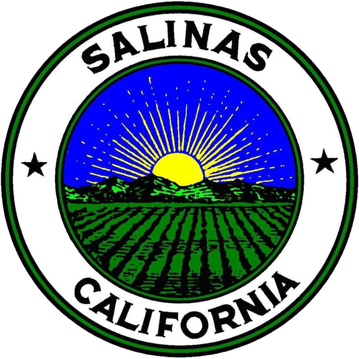 Seal of Salinas, California